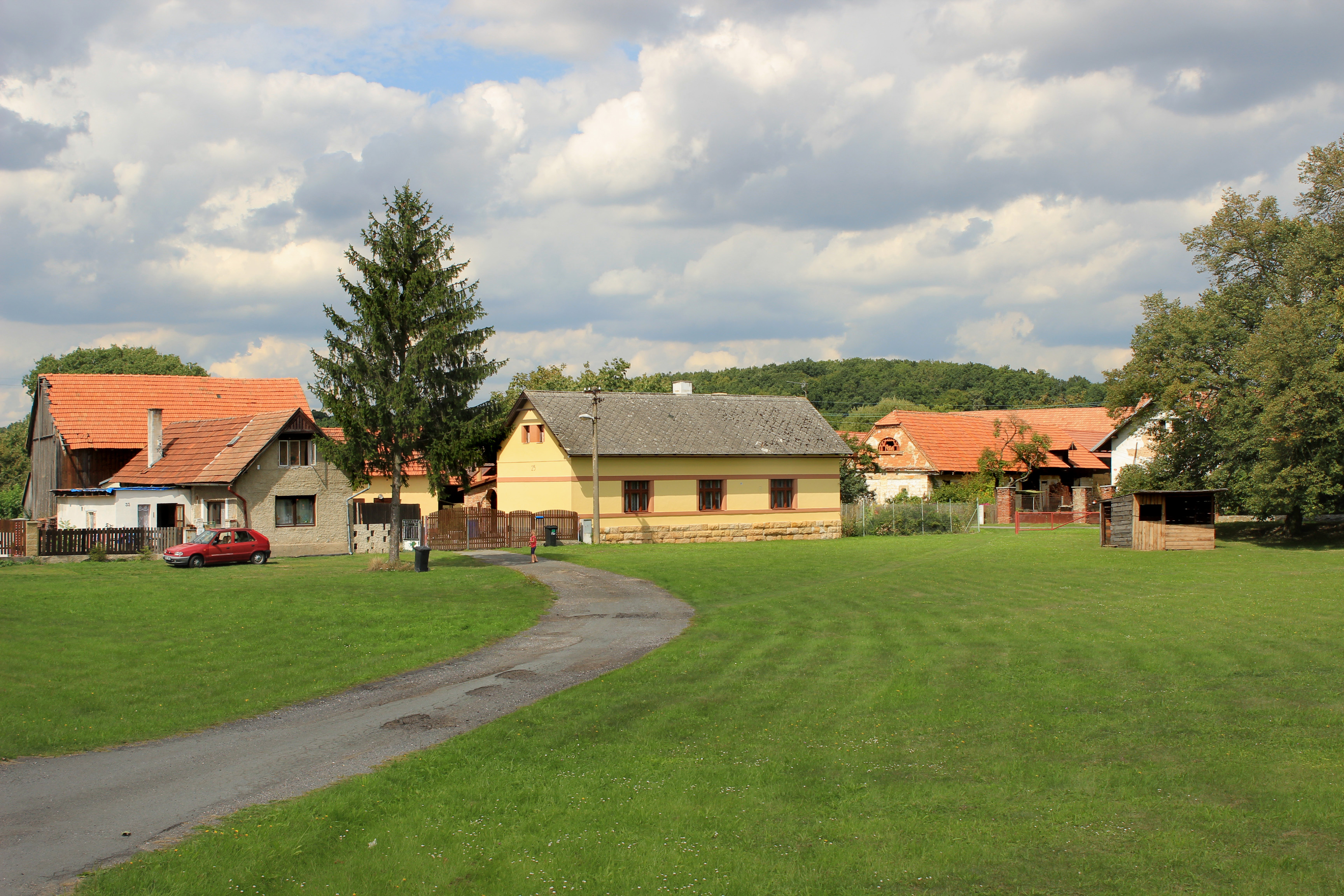 Common in Budčeves, Czech Republic.